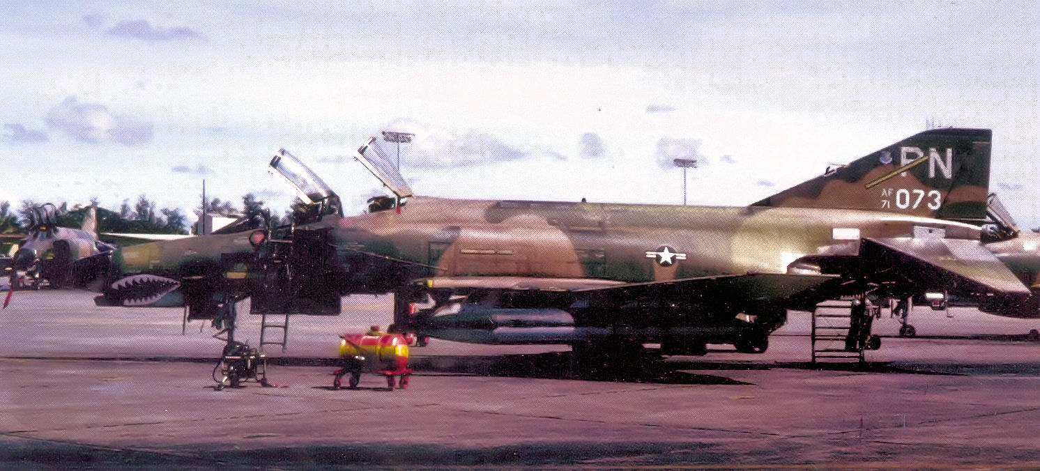 3d Tactical Fighter Squadron McDonnell Douglas F-4E-49-MC Phantom 71-1073 Clark AB, Philippines 1976. Retired to AMARC as FP0649 Apr 5, 1991. Still on AMARC inventory Jan 15, 2008